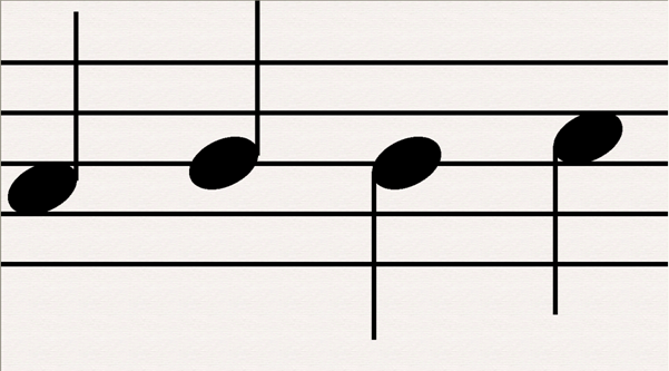 Note stems showing when the stems change